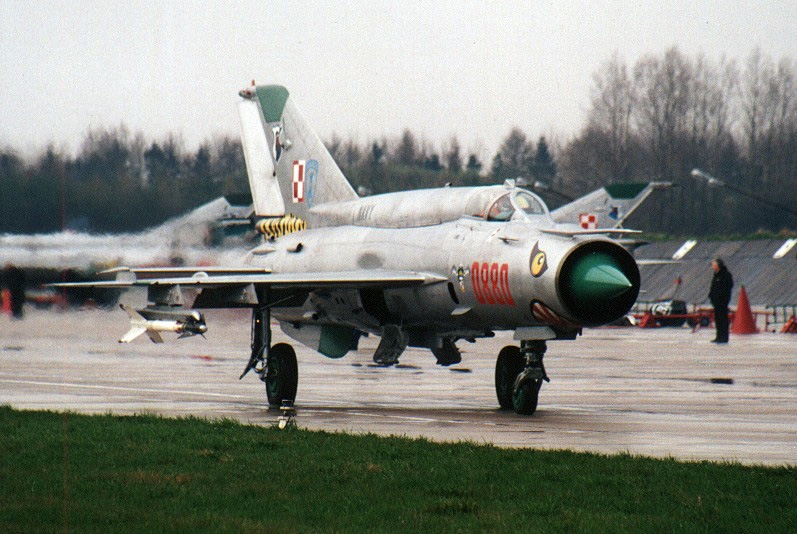 MiG-21bis with markings of Polish 1st Naval Sqd.